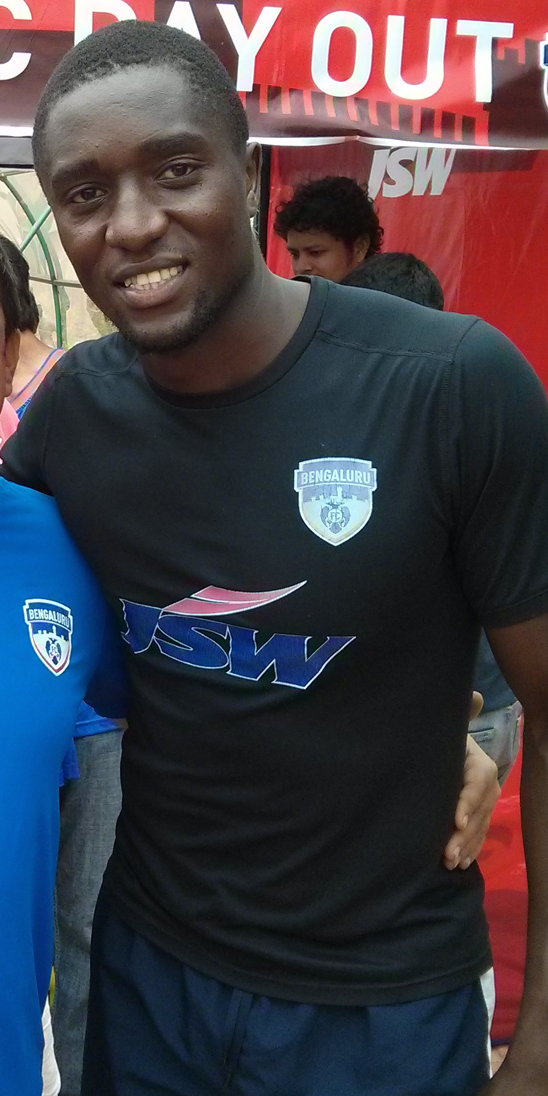 Curtis Osano in Bengaluru FC jersey during BFC DAY OUT event